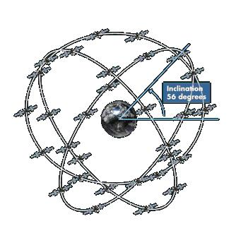 Image is presenting the configuration of GALILEO satellites in space